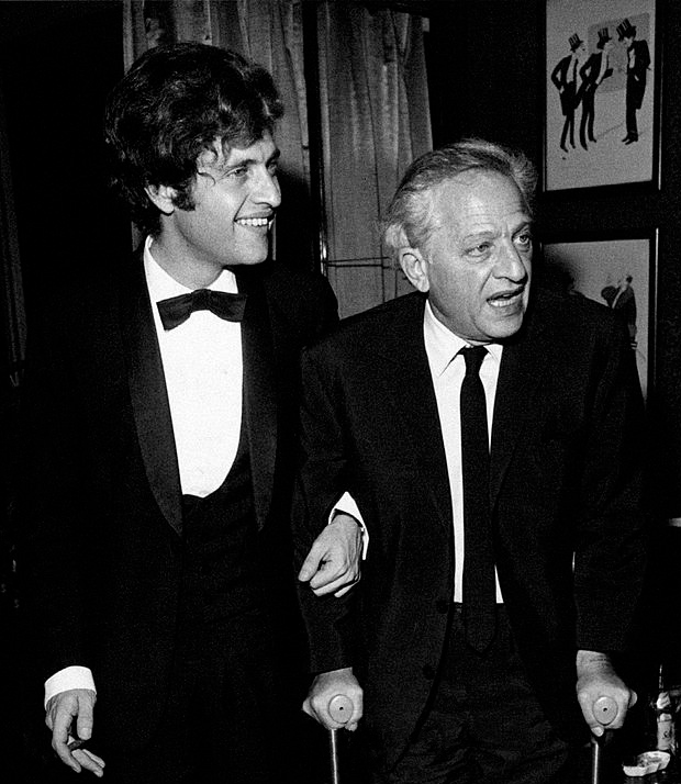 American-born French singer Joe Dassin helping his father, American director Jules Dassin walking on crutches. Paris, 1970.